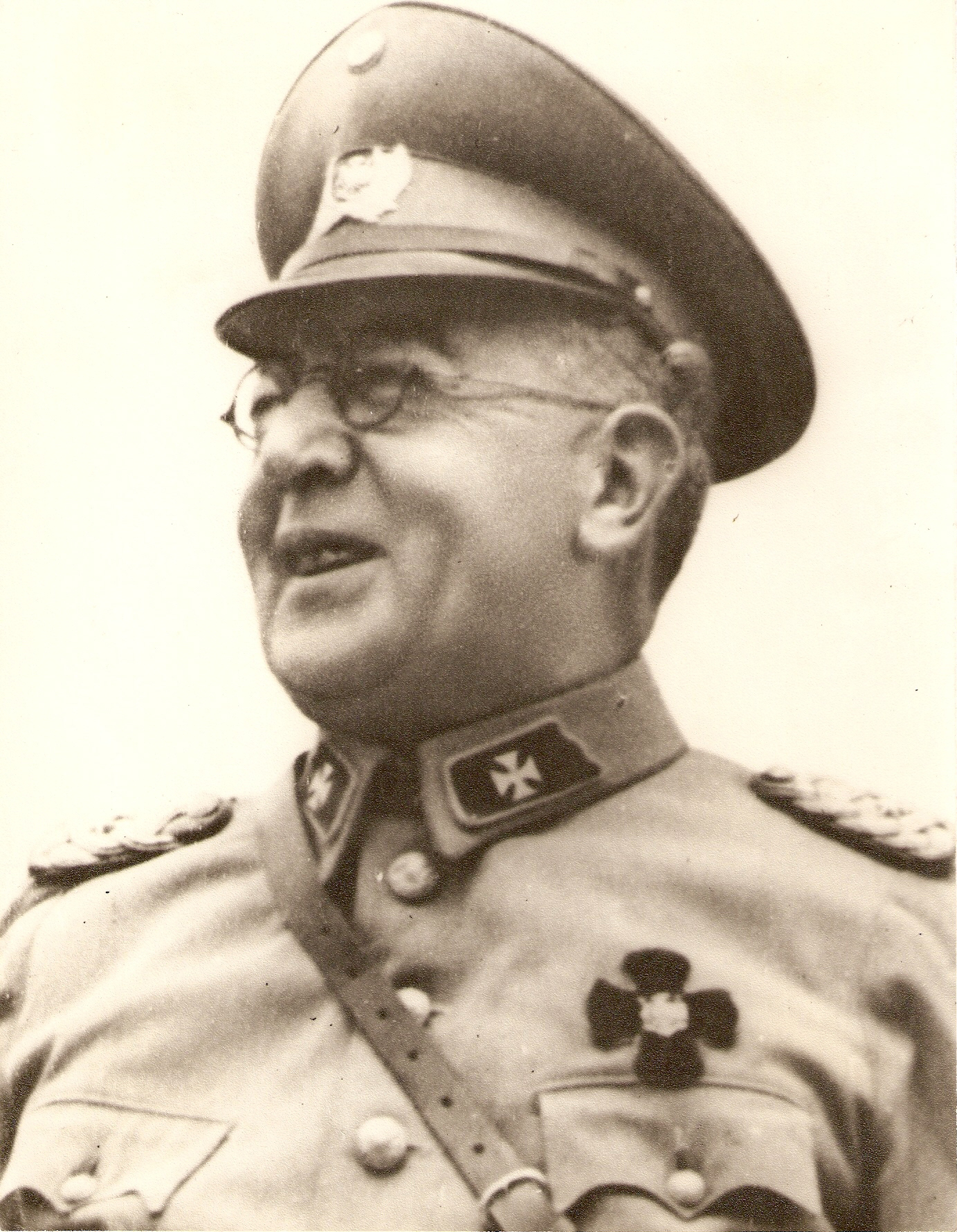 Military Chaplain Bernardino Abarzua